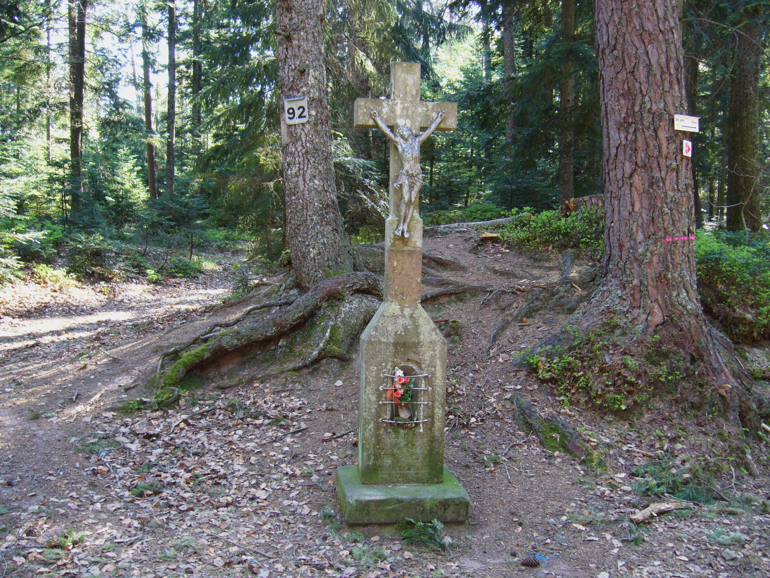 Croix du Haut de Ribeauvillé au pied du massif du Taennchel